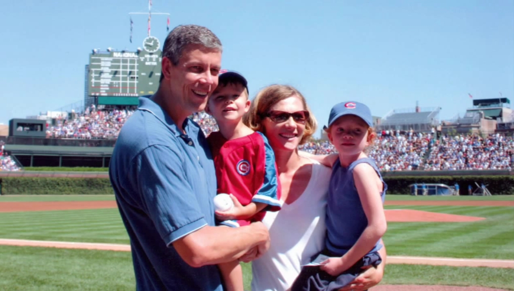 Arne Duncan and his family.